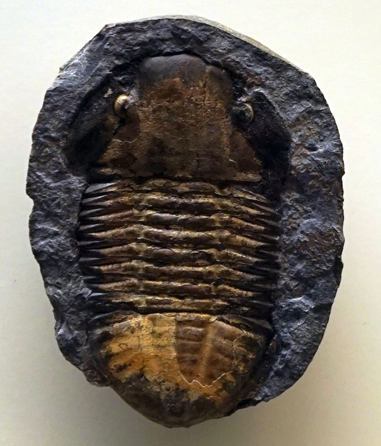 Hoekaspis sp. fossil in Augsburg Naturmuseum. This photograph was taken with a Sony Alpha a5000.